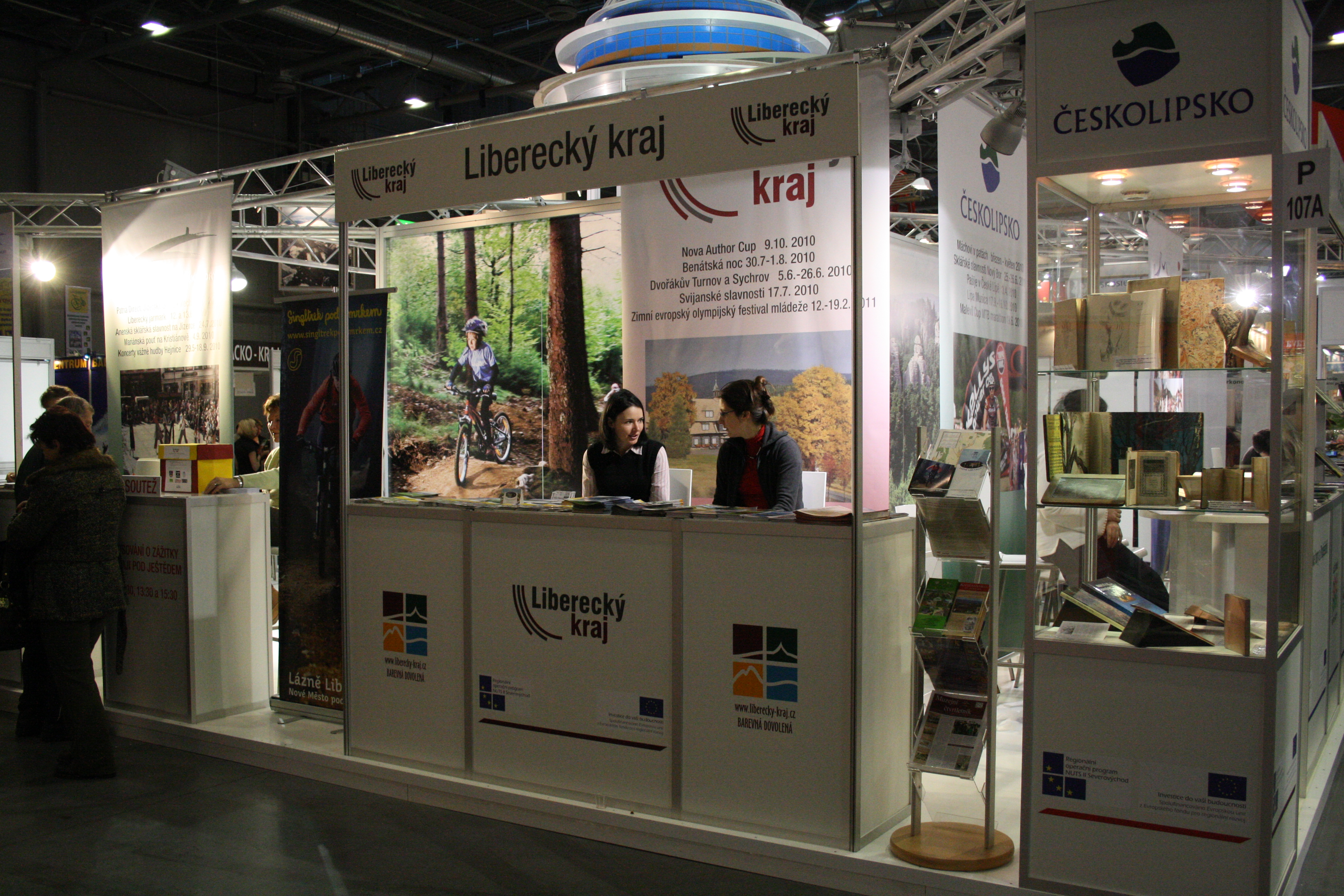 Presentation of various touristic destinations of Czech Republic.